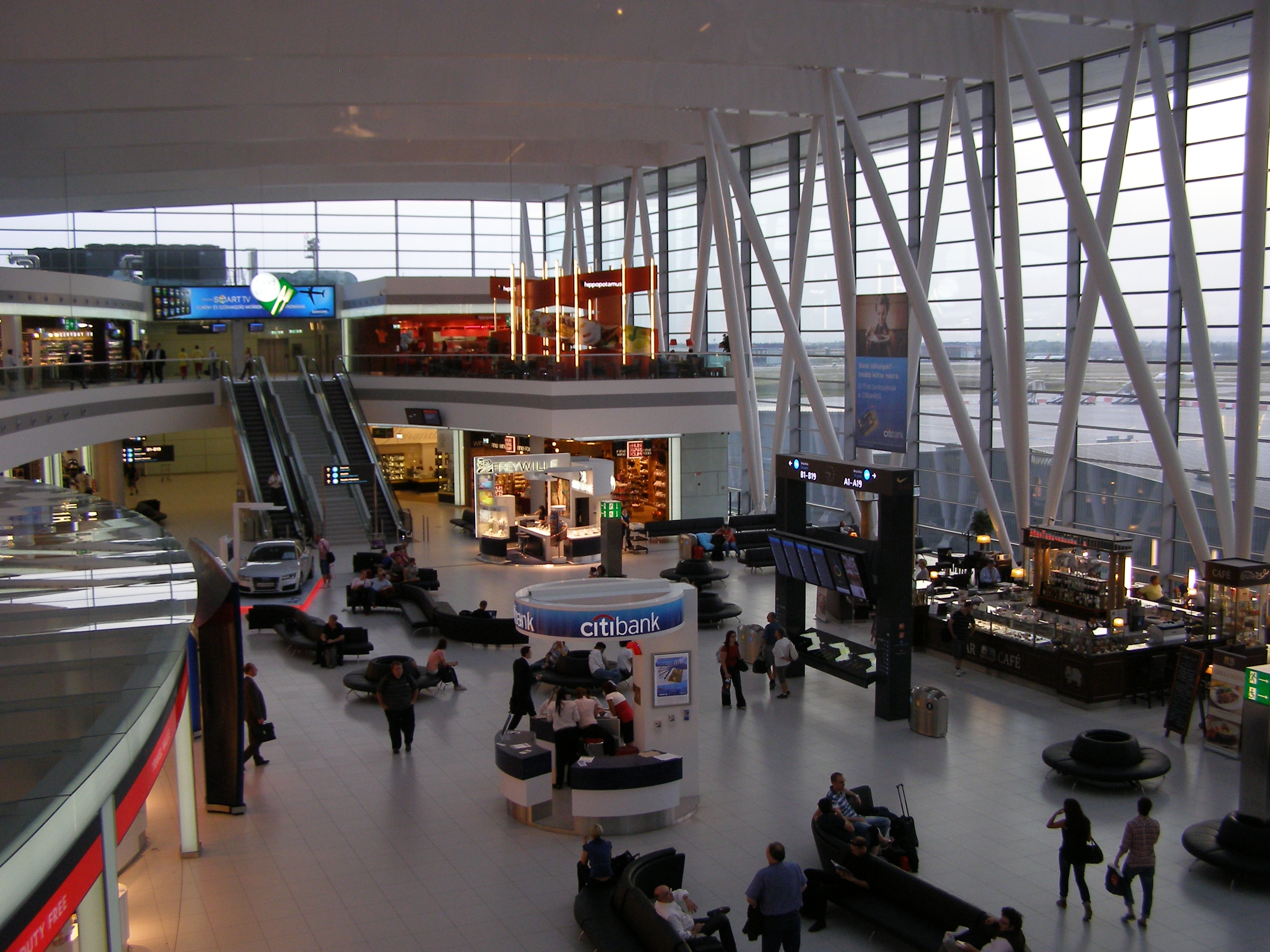 The departures hall of the Ferenc Liszt International Airport in Budapest